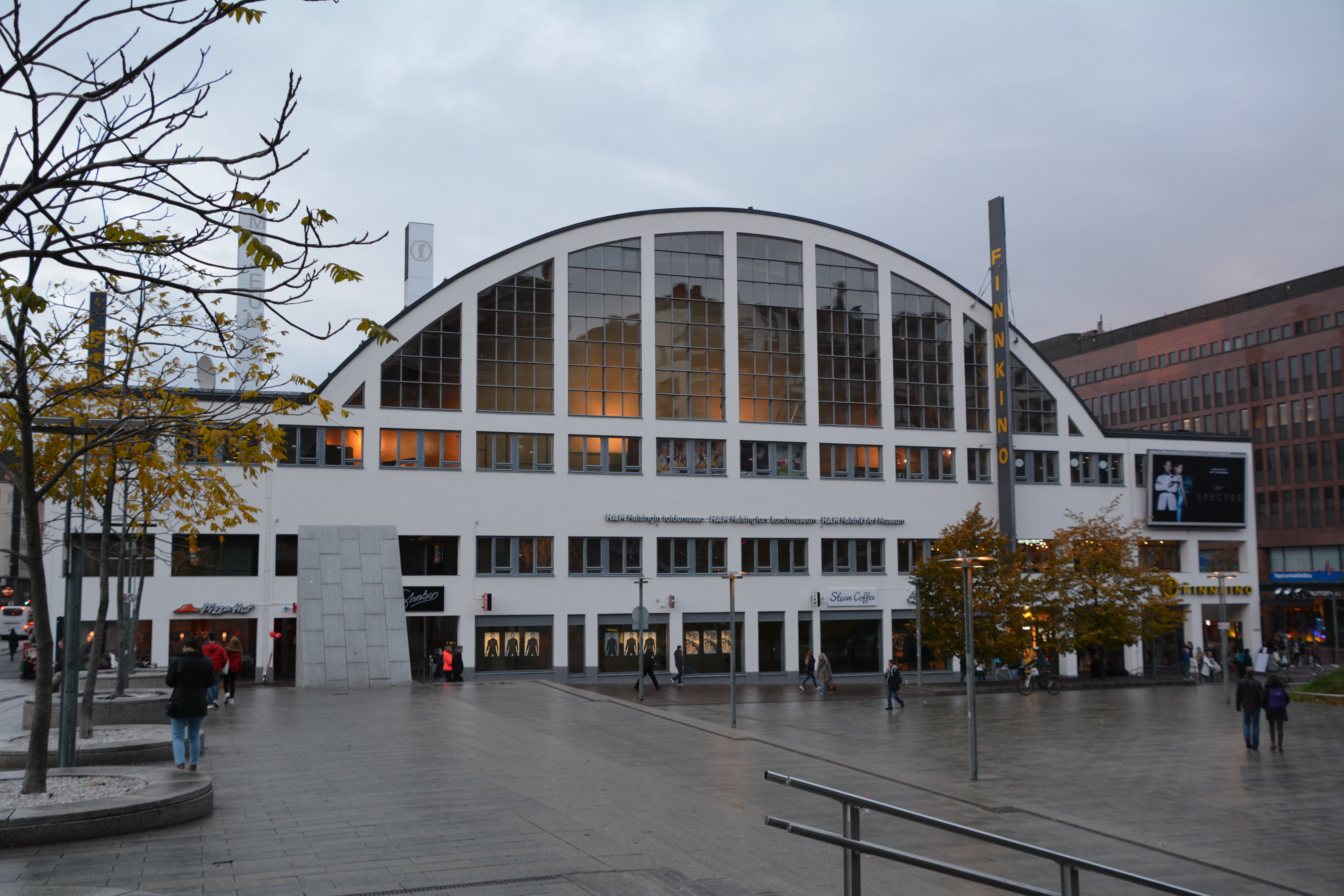 Helsinki Art Museum, eastern facade (Tennis palace)